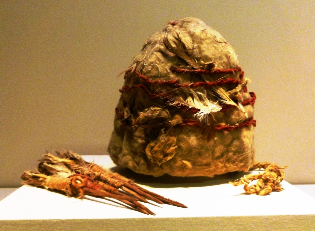 This ancient felt hat from Loulan is in the National Museum in Beijing